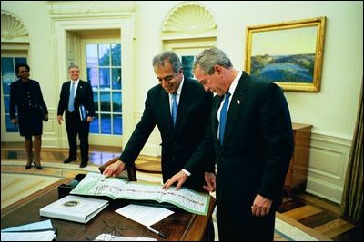 Meeting in the Oval Office, Dr. Zalmay Khalilzad, U.S. Ambassador to Afghanistan, presents President George W. Bush an Afghan ballot from the first democratic election in Afghanistan Oct. 18, 2004. Despite the threat of terrorists attacks, about 8.4 million people voted in the election.